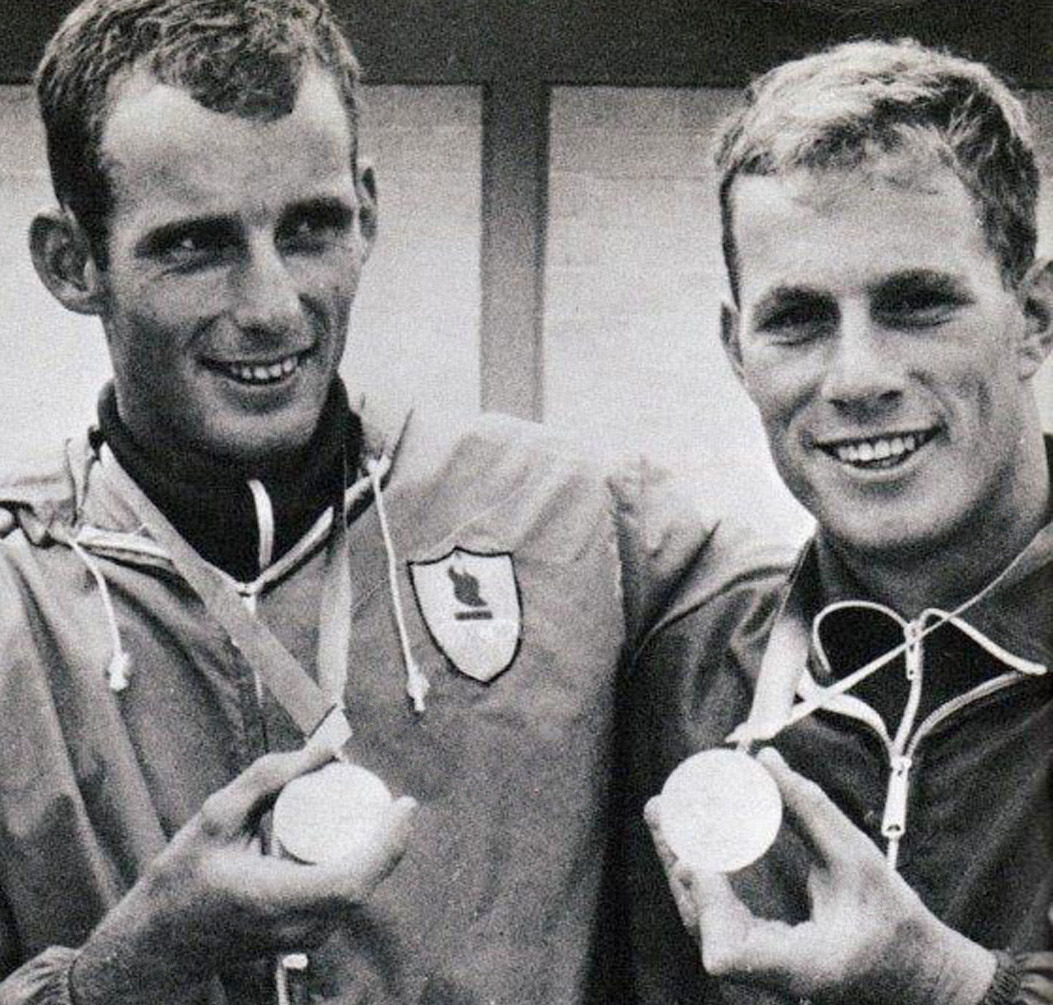 Left-right: Steinar Amundsen, Jan Johansen, 1968 Olympics